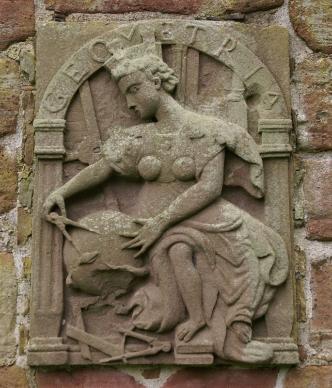 Edzell Castle, Angus, Scotland. Geometrica.